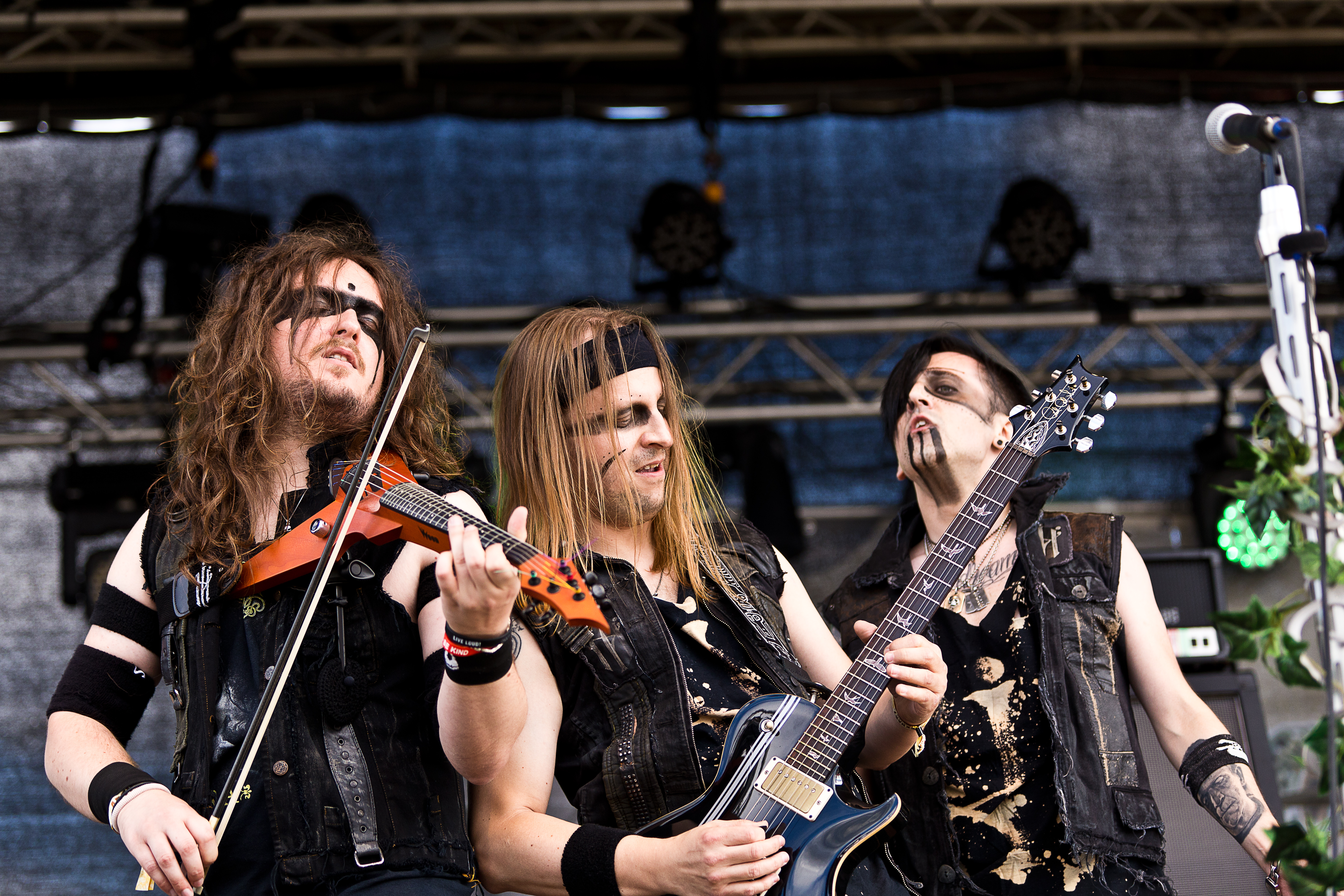 The Italian power metal band Elvenking at the Rockharz Open Air 2015 in Ballenstedt/Germany.